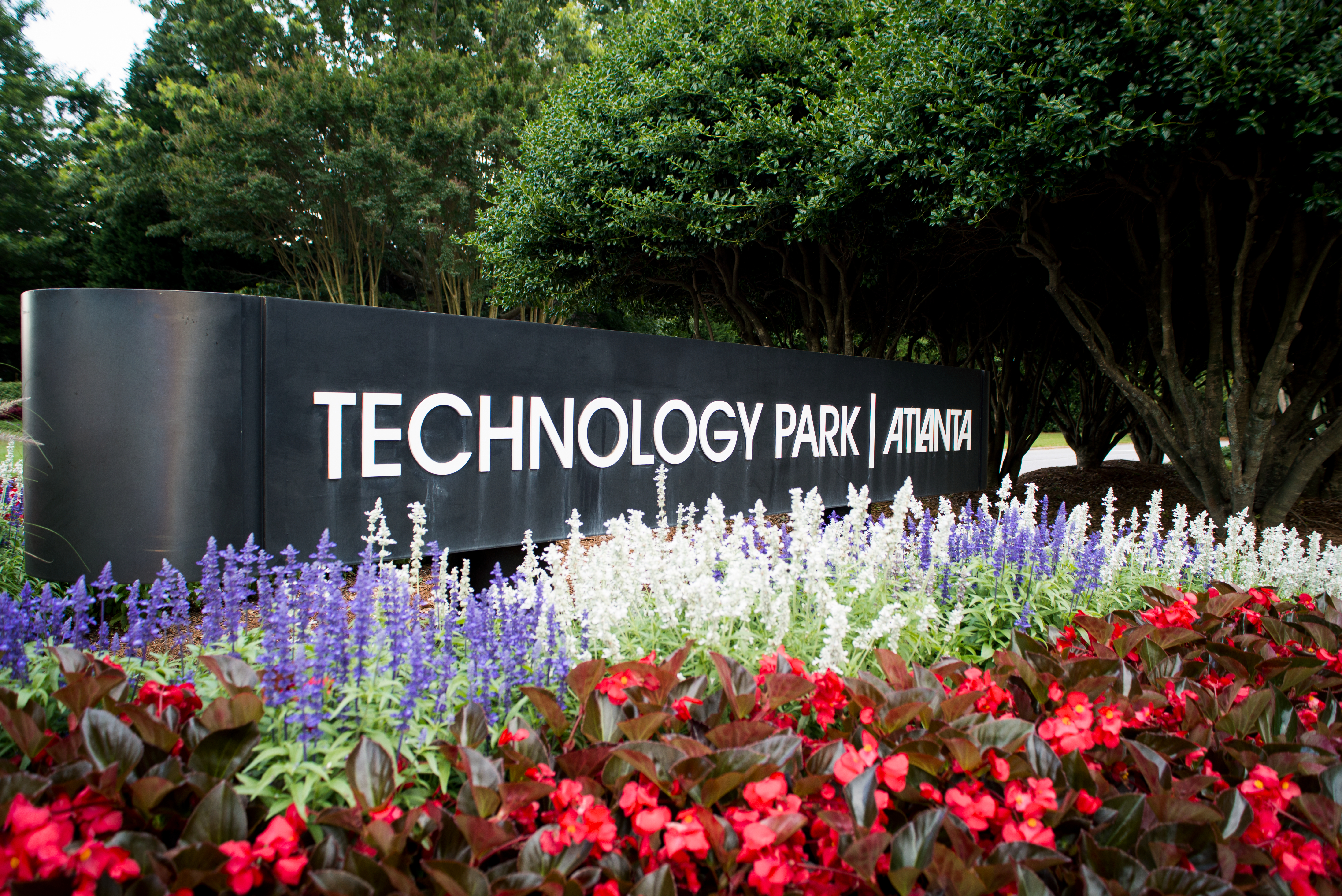 Entrance to Technology Park Atlanta